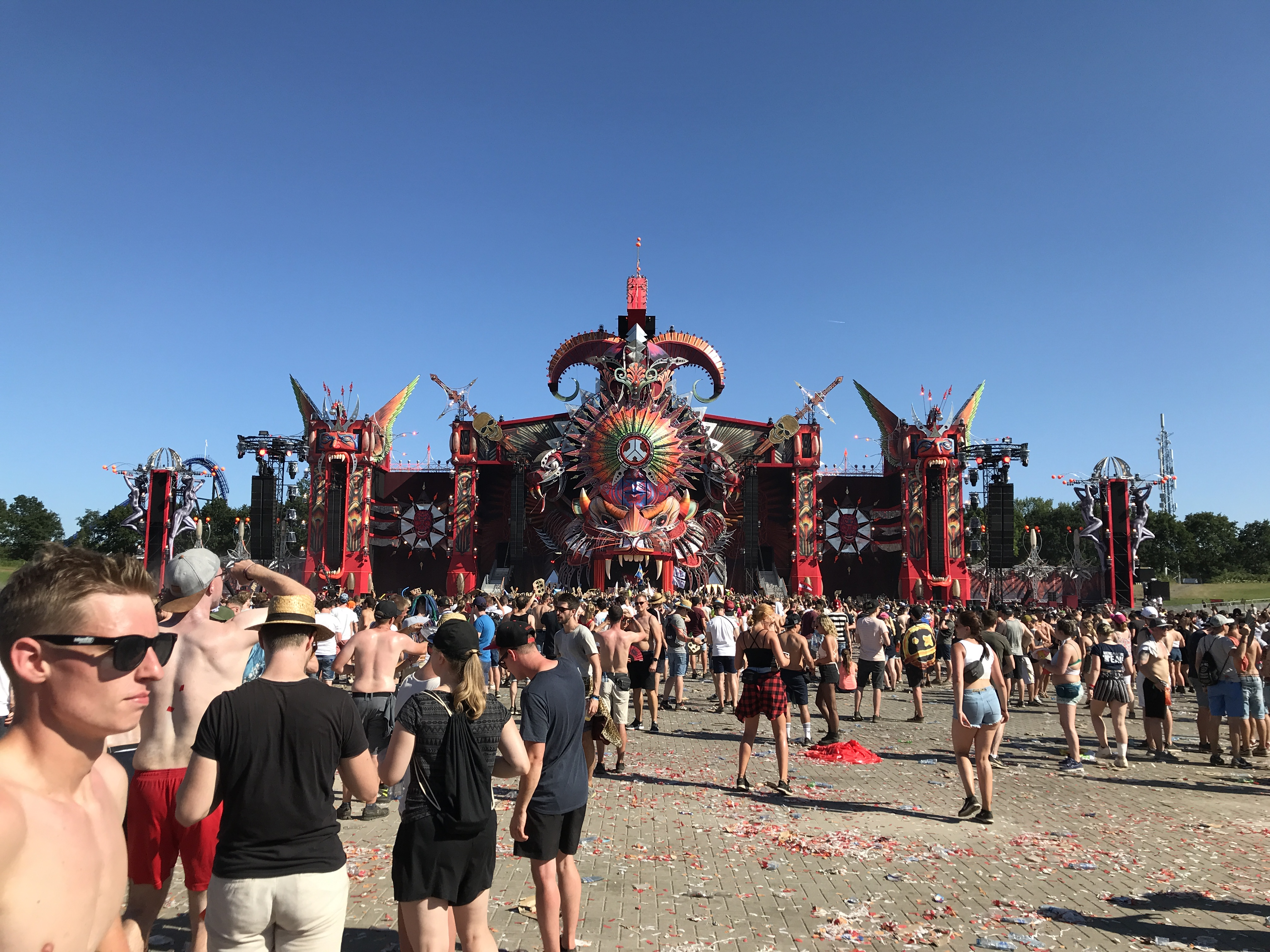 This picture shows the Mainstage (RED) of Defqon.1 2019